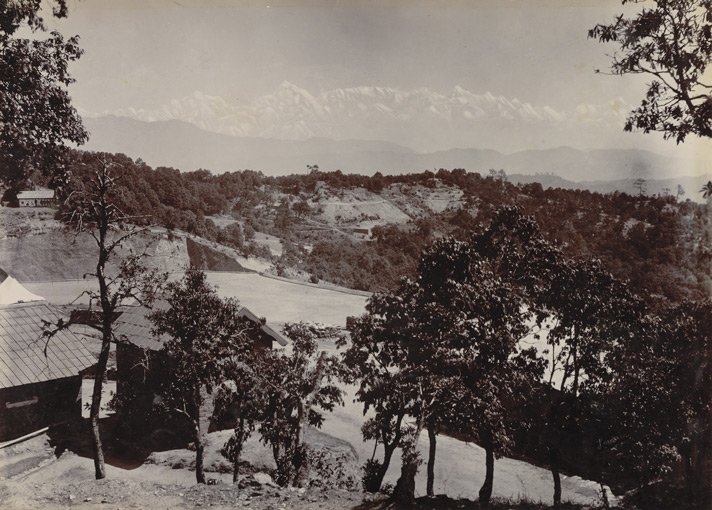 Photograph of Ranikhet from the Macnabb Collection (Col James Henry Erskine Reid): Album of views of 'Naini Tal' taken by Lawrie & Co in 1895. Ranikhet (Queen's Field) was named after a legendary Queen who camped in the area and fell in love with it. Situated 49 miles north of Nainital, the town provides a spectacular view of the Himalayan range. Ranikhet is still a military cantonment and the Kumaon Regiment has been stationed there from 1780. This is a General view of the hill station of Ranikhet, with snowy peaks in the distance.